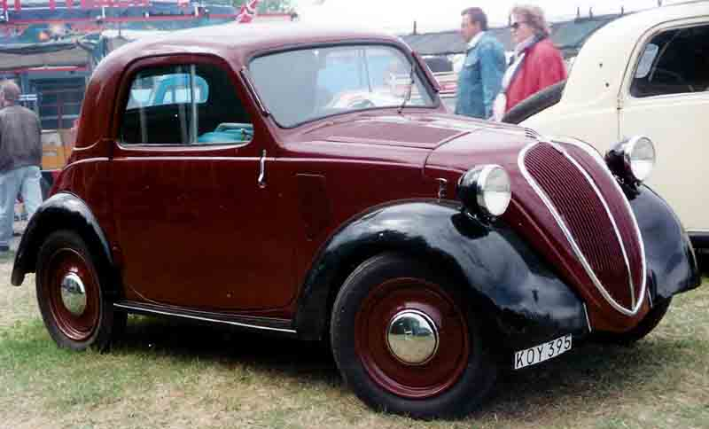 Fiat 500A Standard Coupé 1939